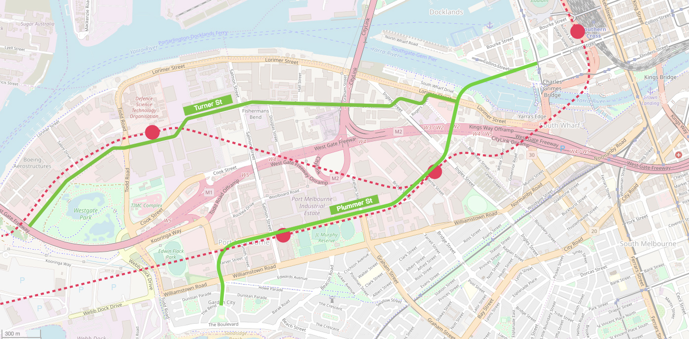 Map of the proposed tram extensions to the major urban renewal precinct in Melbourne, according to the 2018 Fishermans Bend Precinct Framework. Map depicts two tram proposals along a new six-metre bridge across the Yarra from Collins St, along Turner St in the proposed Employment Precinct, and along Plummer St in the proposed residential suburbs of Sandridge and Wirraway. The map also shows two alternatives of the proposed alignment for the Melbourne Metro 2 tunnel, connecting the Werribee line with the Mernda line. All these proposed alignments come from the Framework, released by the State Government in 2018.